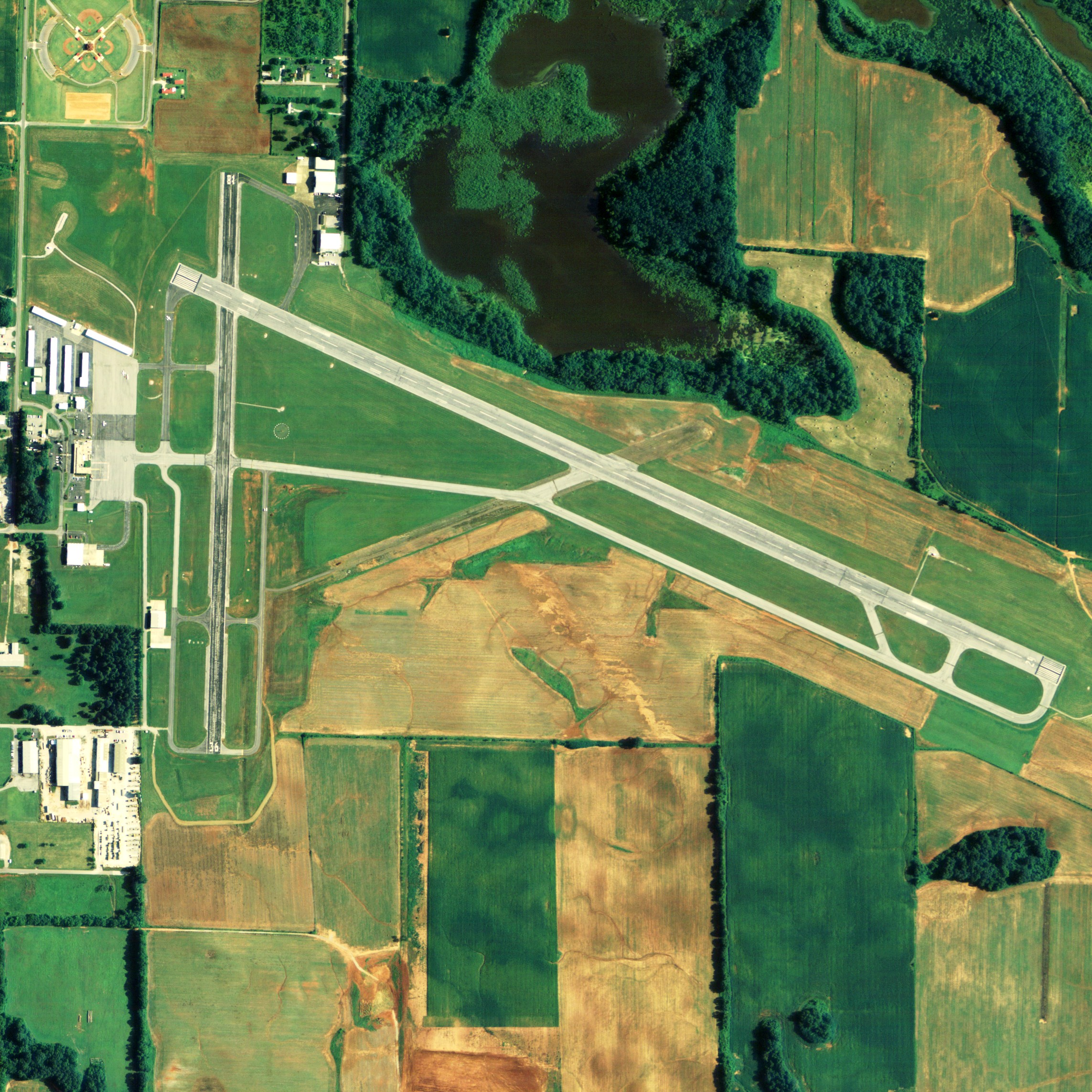 Aerial image of Northwest Alabama Regional Airport in Muscle Shoals, Alabama, United States